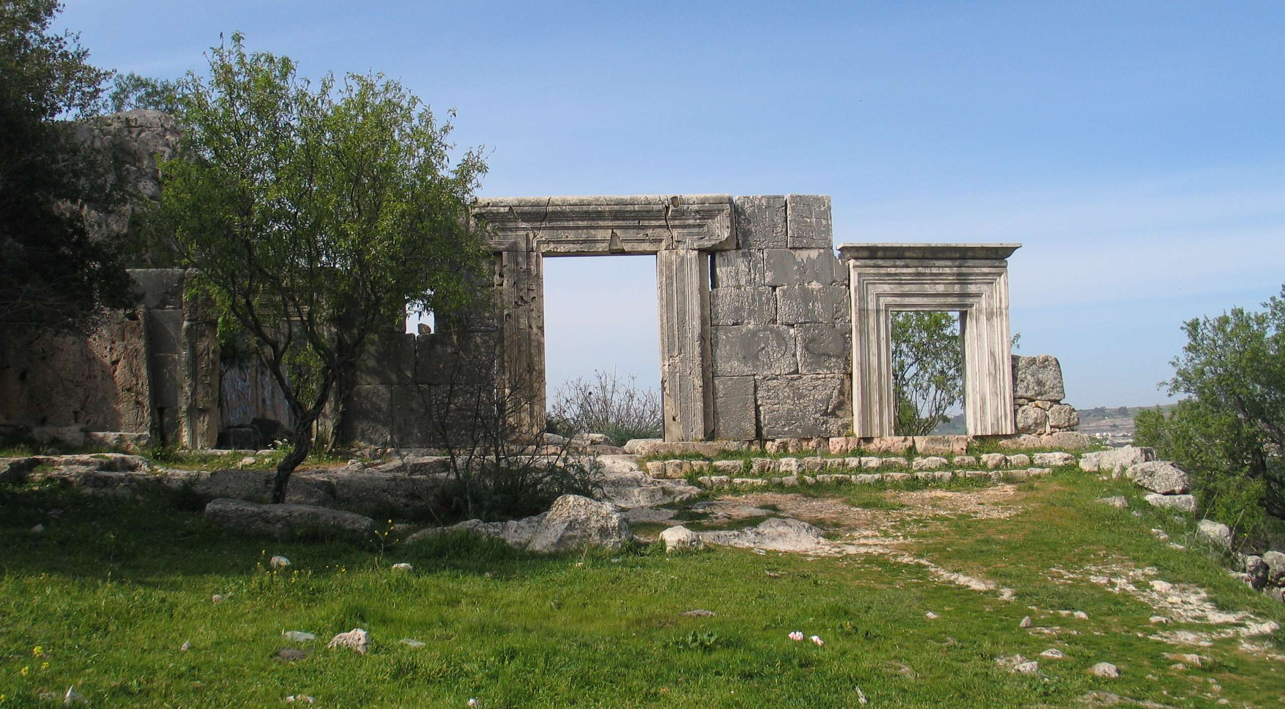 Ancient synagogue in Meron, Israel.